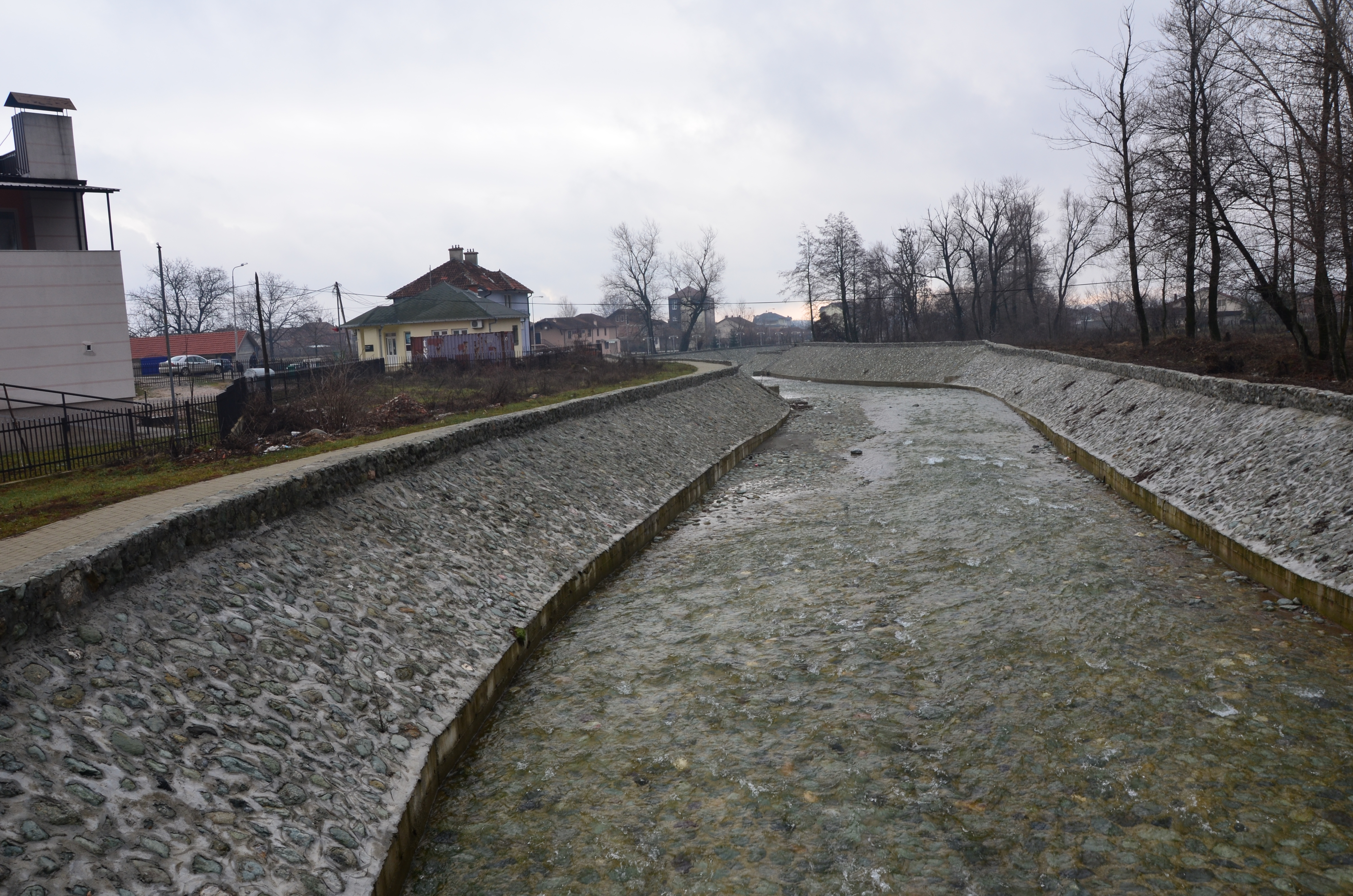 The view of the river of junik from the bridge